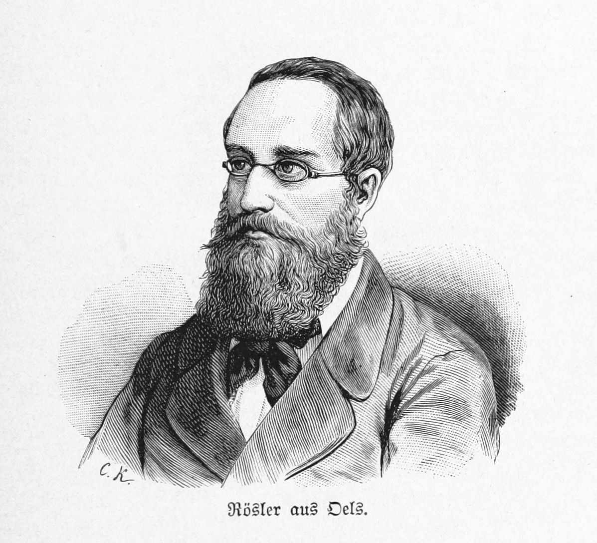 Image extracted from page 313 of Die deutsche Revolution. Geschichte der deutschen Bewegung von 1848 und 1849 ... Illustrirt, etc', by BLOS, Wilhelm. Original held and digitised by the British Library. Copied from Flickr. Note: The colours, contrast and appearance of these illustrations are unlikely to be true to life. They are derived from scanned images that have been enhanced for machine interpretation and have been altered from their originals.